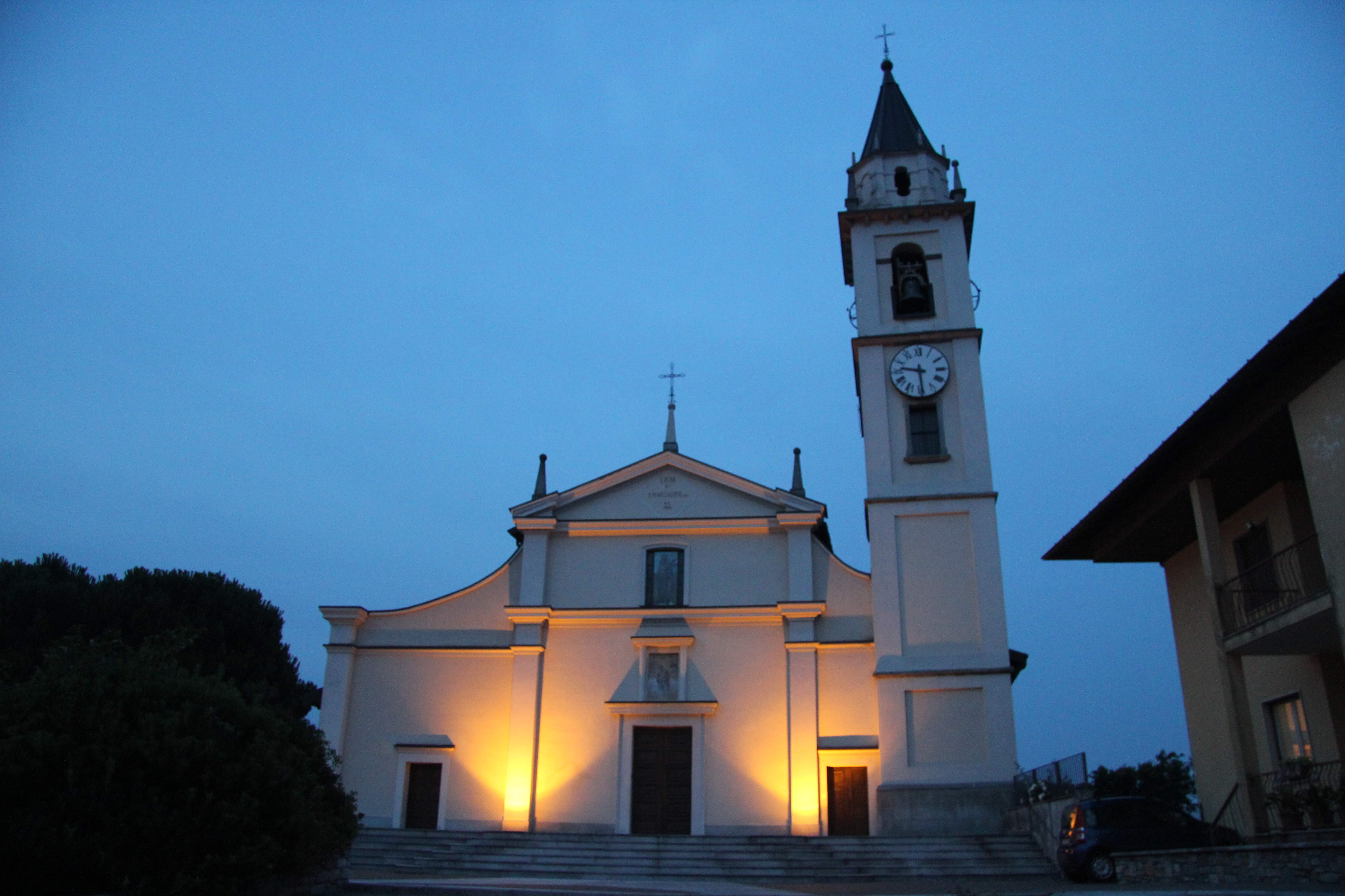 Church of S. Margherita in Cadrezzate, Italy